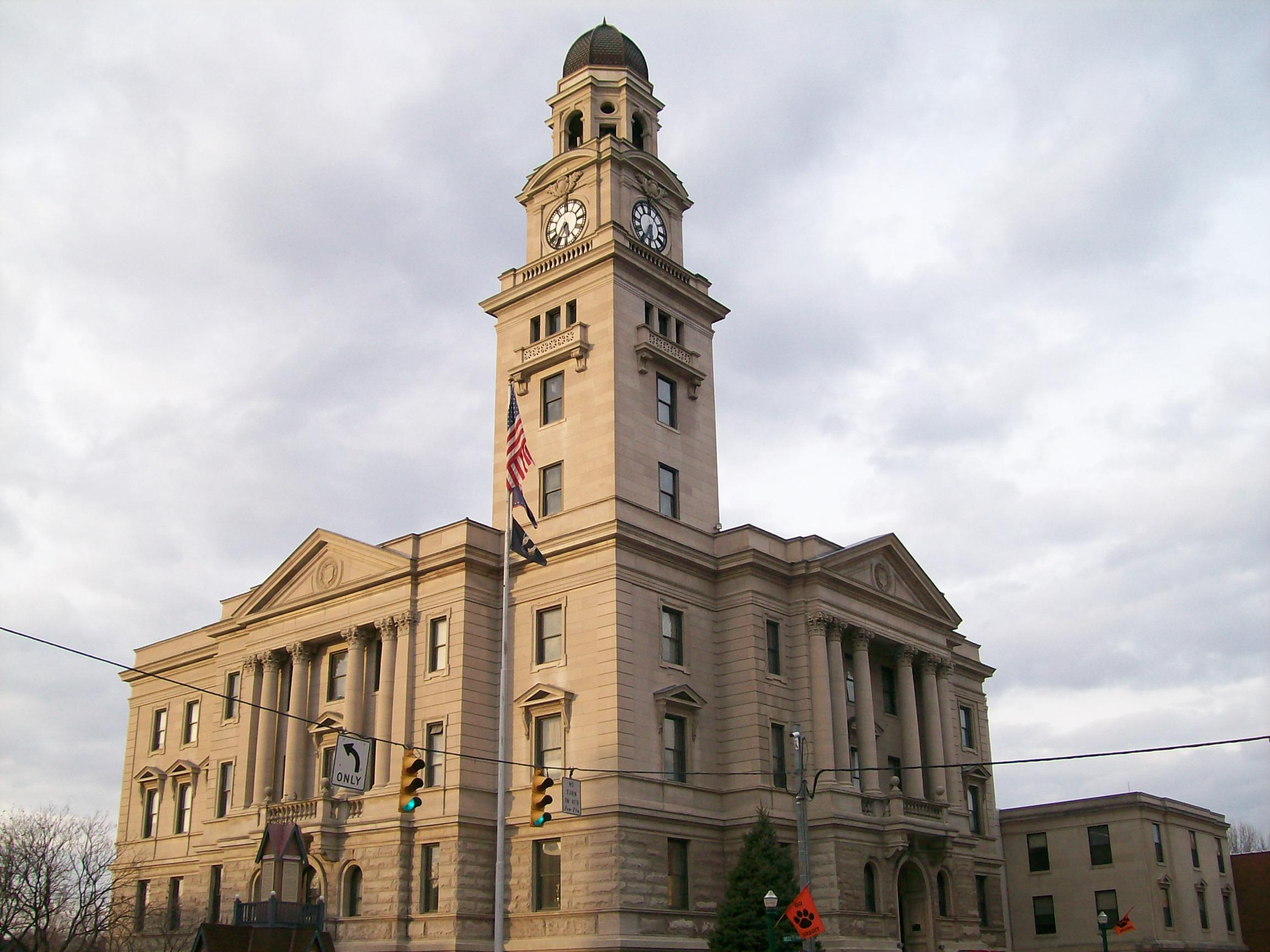 Washington County Courthouse in Marietta, Ohio. The courthouse is located on the north corner of the junction of 2nd and Putnam Streets. This junction is photographed here. The courthouse is part of the Marietta Historic District. Taken 2010-03-10.